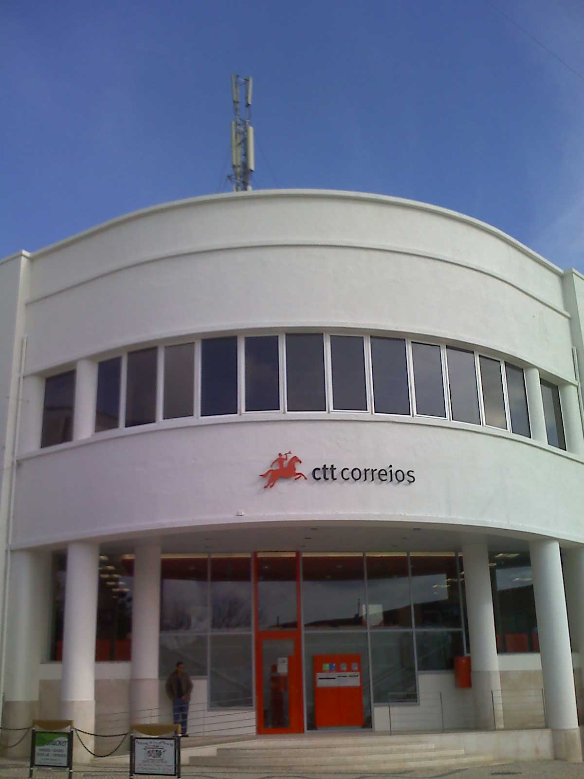 CTT Post office, Santarém, Portugal